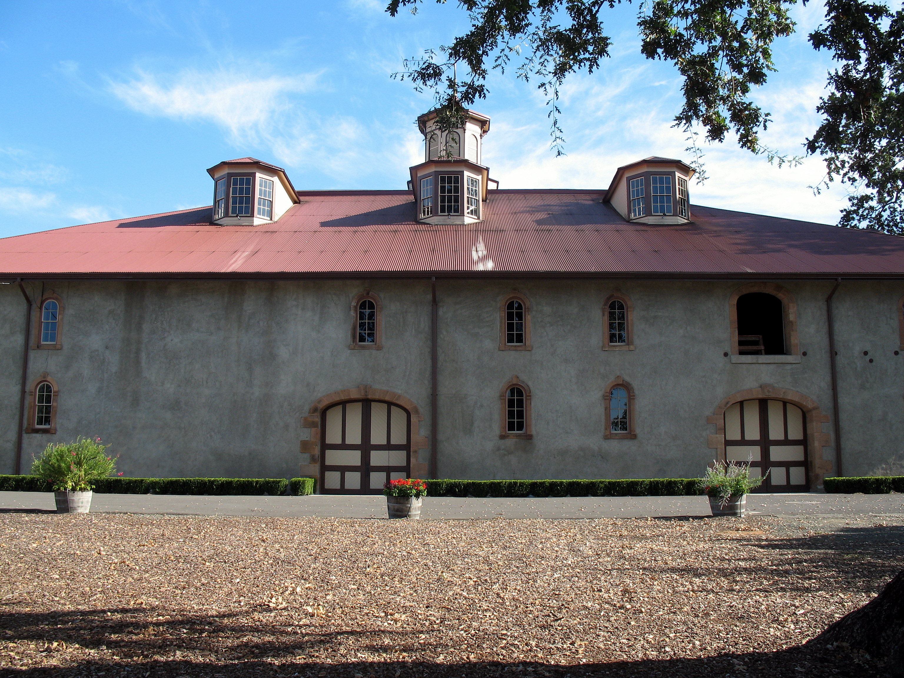 National Register of Historic Places listings in Napa County, California. Charles Krug Winery, 2800 St. Helena Hwy., St. Helena, California